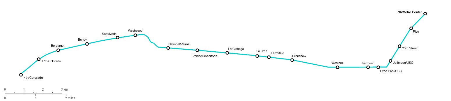 A geographically-correct route map of the Metro Expo Line (LACMTA).